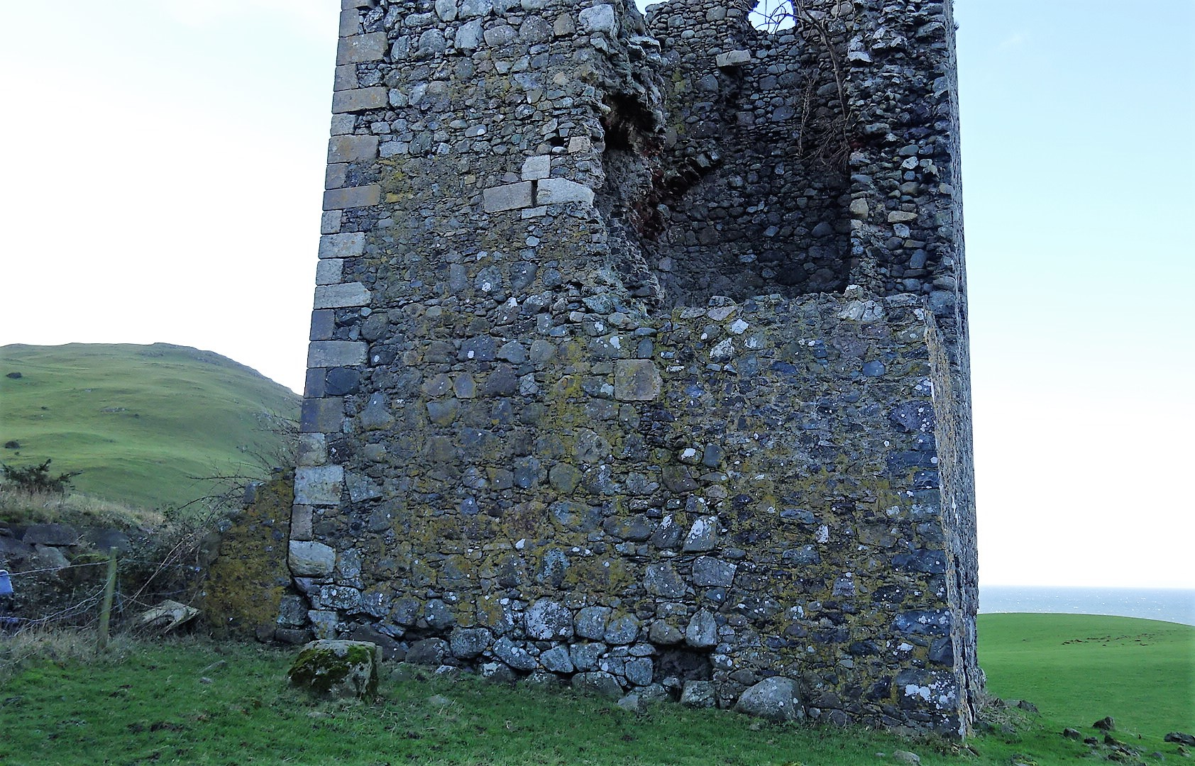 Carleton Castle ruin from the north-east, Little Carleton Farm, Lendalfoot, South Ayrshire, Scotland. Collapsed wall details with rebuilt section.